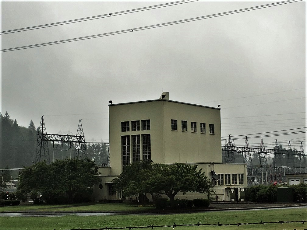 Covington Electrical Substation, Bonneville Power Administration Site is guarded by a security fence; this northeast view is a telephoto image.